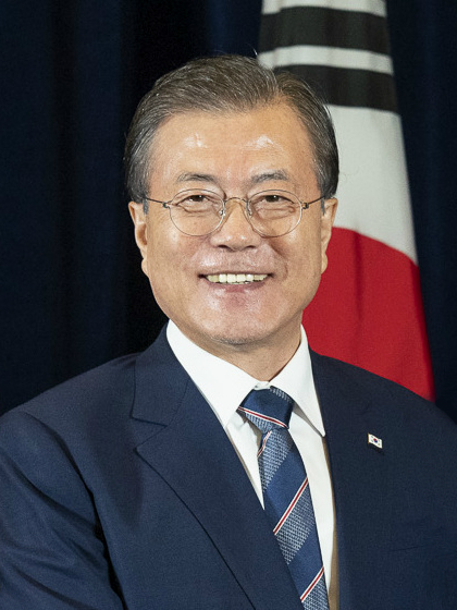 President Donald J. Trump participates in a bilateral meeting with South Korean President Moon Jae-in Monday, Sept. 23, 2019, at the InterContinental New York Barclay in New York City. (Official White House Photo by Shealah Craighead)